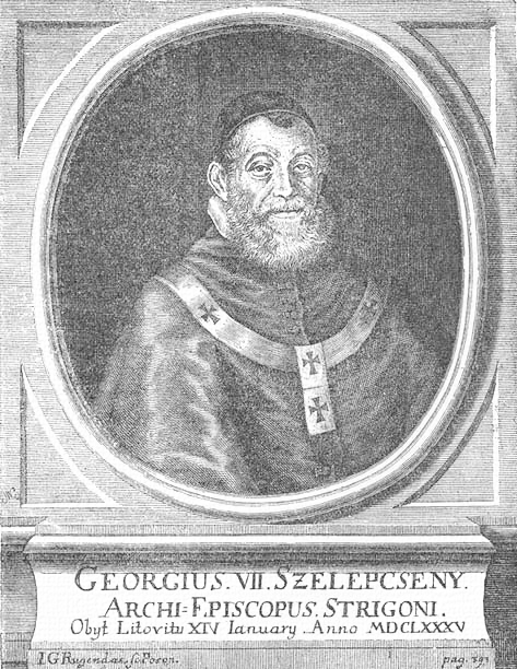 Portrait of George Szelepcsényi archbishop of Esztergom (Hungary) about 1685